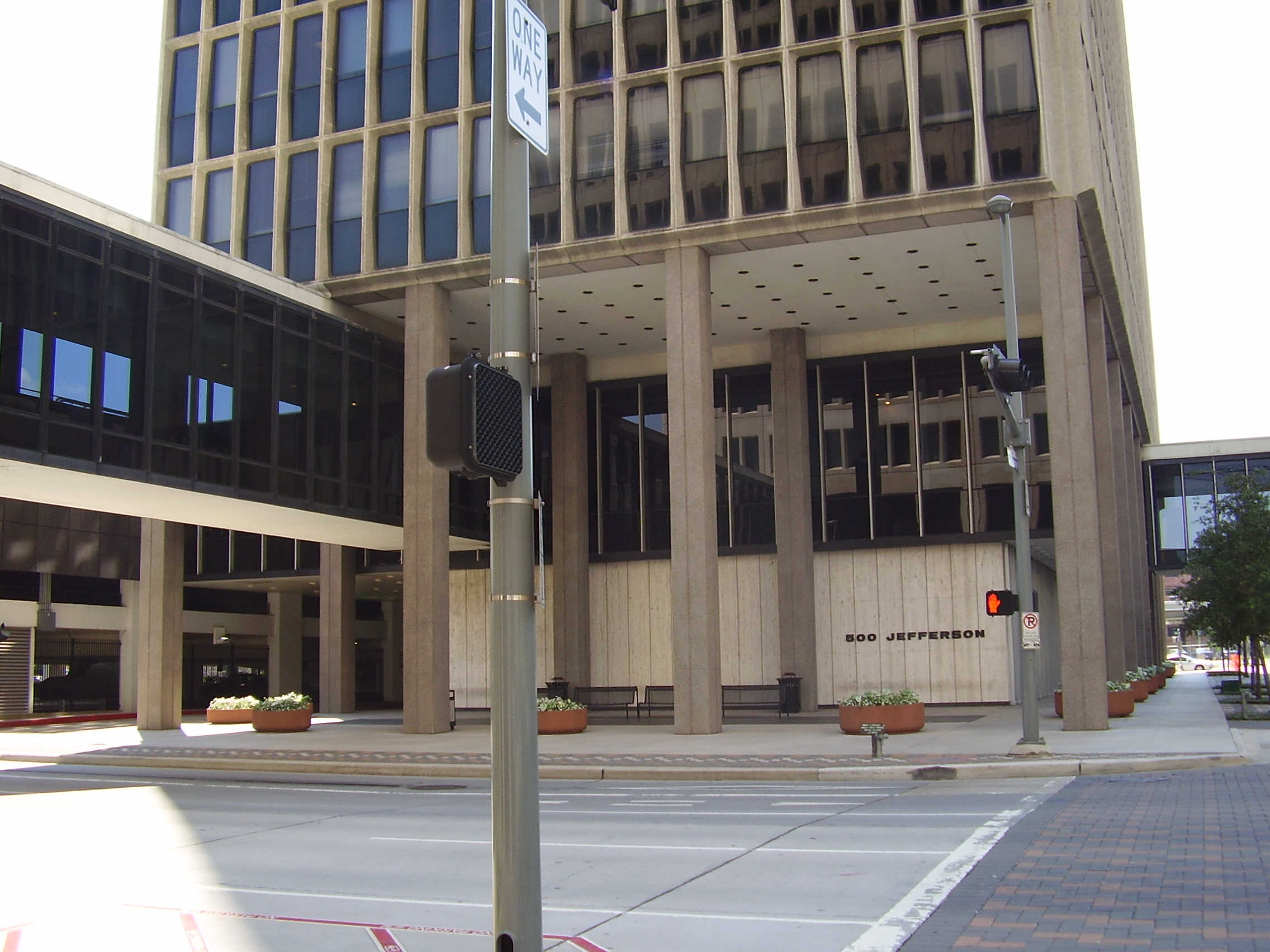 500 Jefferson - has offices of KBR